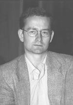 Chess player Valery Salov.